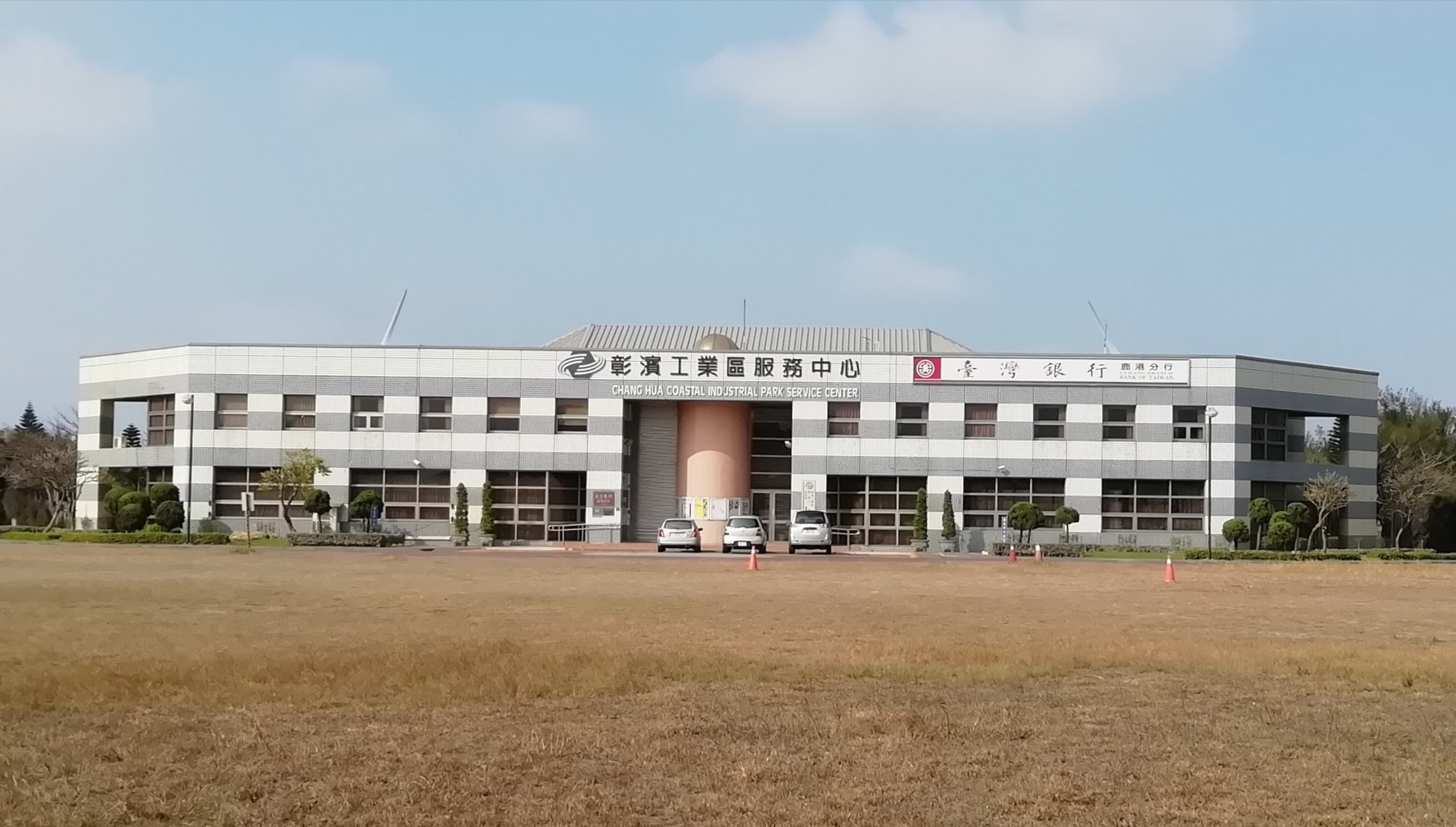 Changhua Coastal Industrial Park - Service center building in Lukang area